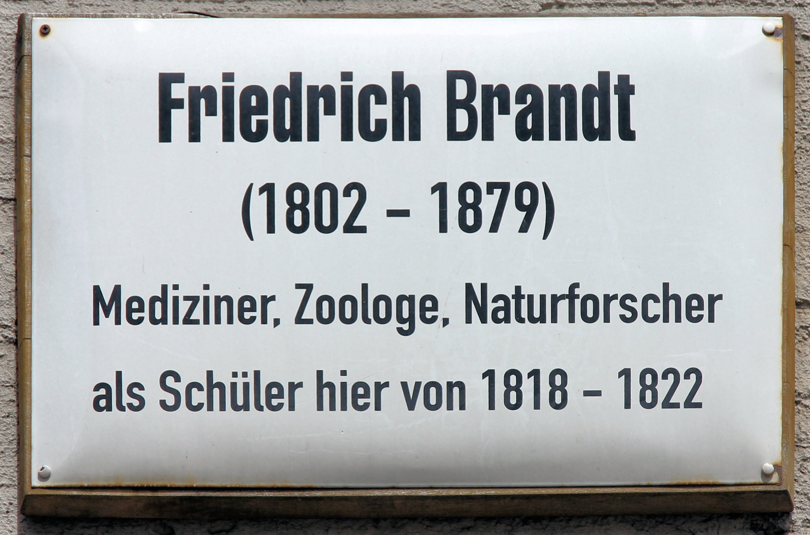 Memorial plaque, Friedrich Brandt, Kirchplatz, Lutherstadt Wittenberg, Germany Koordinate:51°51′59″N 12°38′41″E / 51.86639°N 12.64472°E